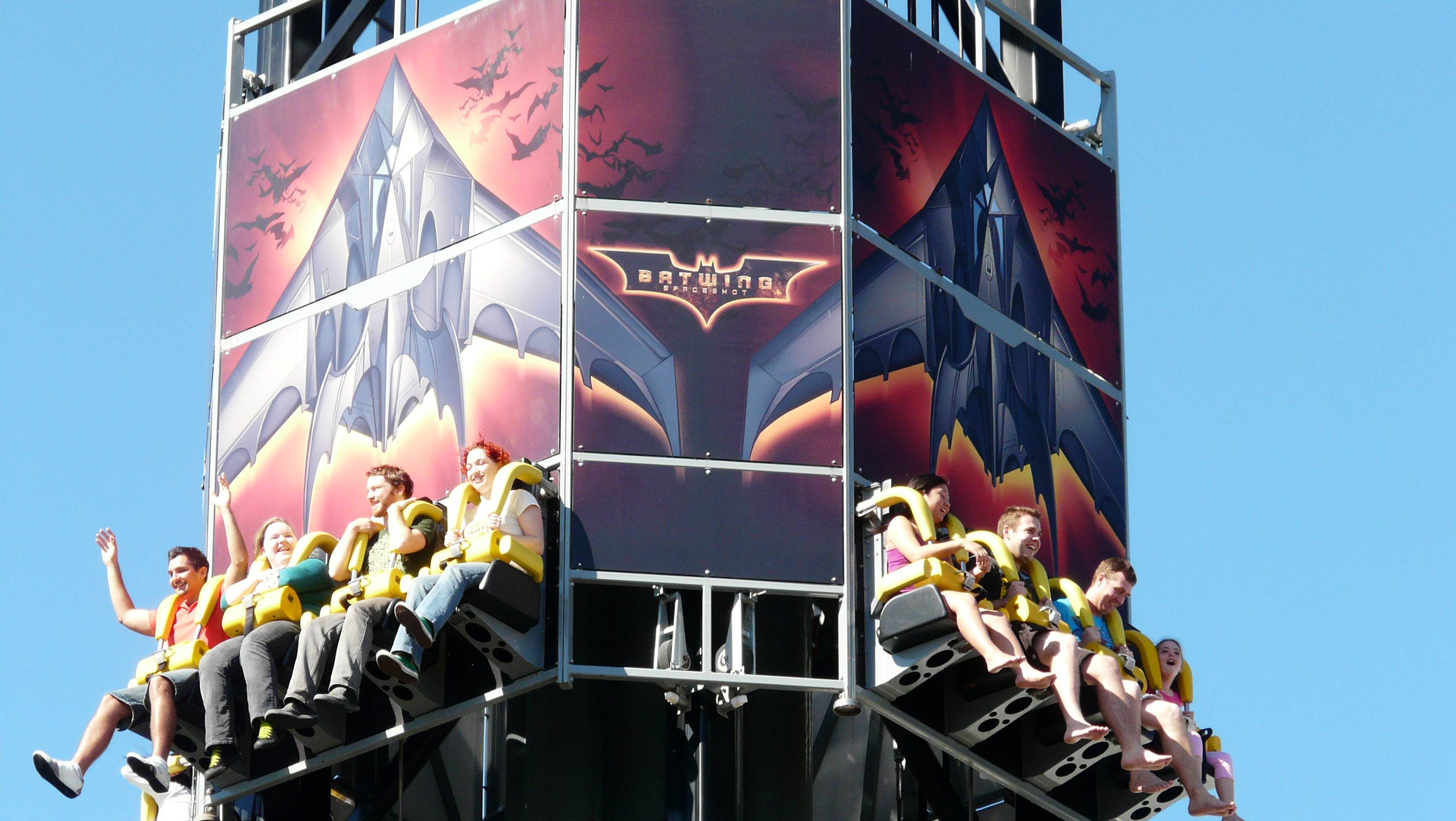 batwing, movie world